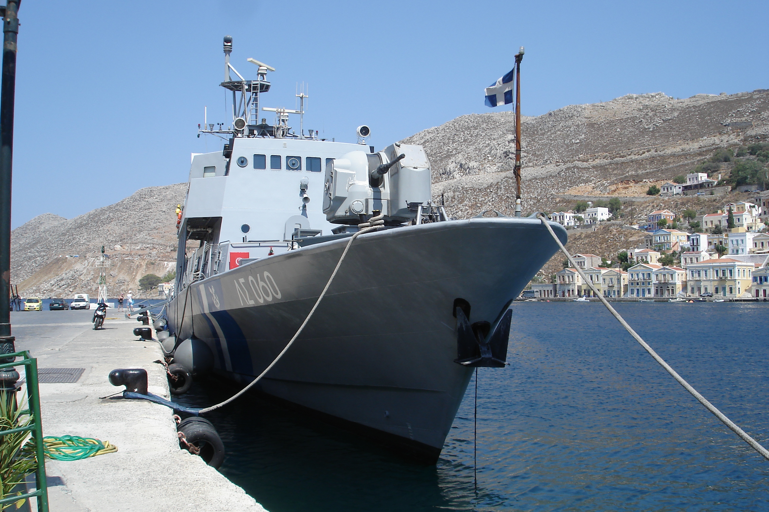 Sa'ar 4-class missile boat ΛΣ-060 of the Hellenic Coast Guard